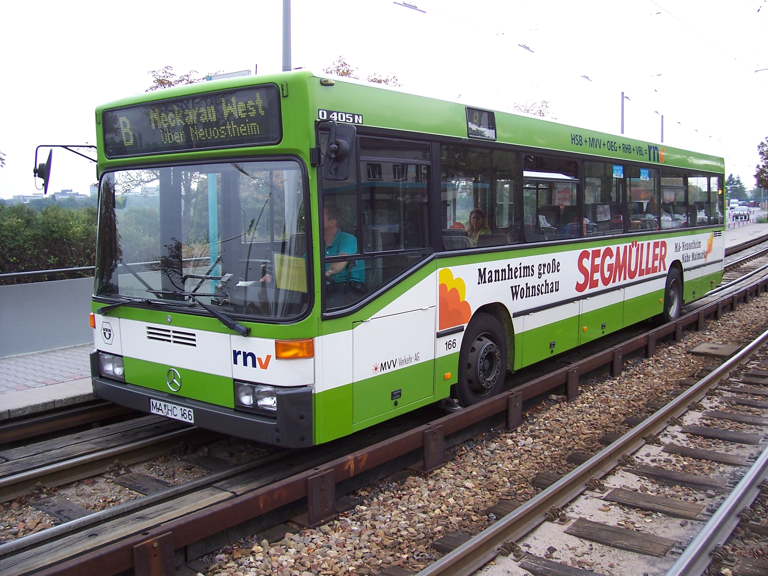 Mercedes-Benz O 405 owned by MVV Verkehr AG on the kerb-guided busway in Mannheim-Feudenheim, Germany My own photo from 14-sep-2005